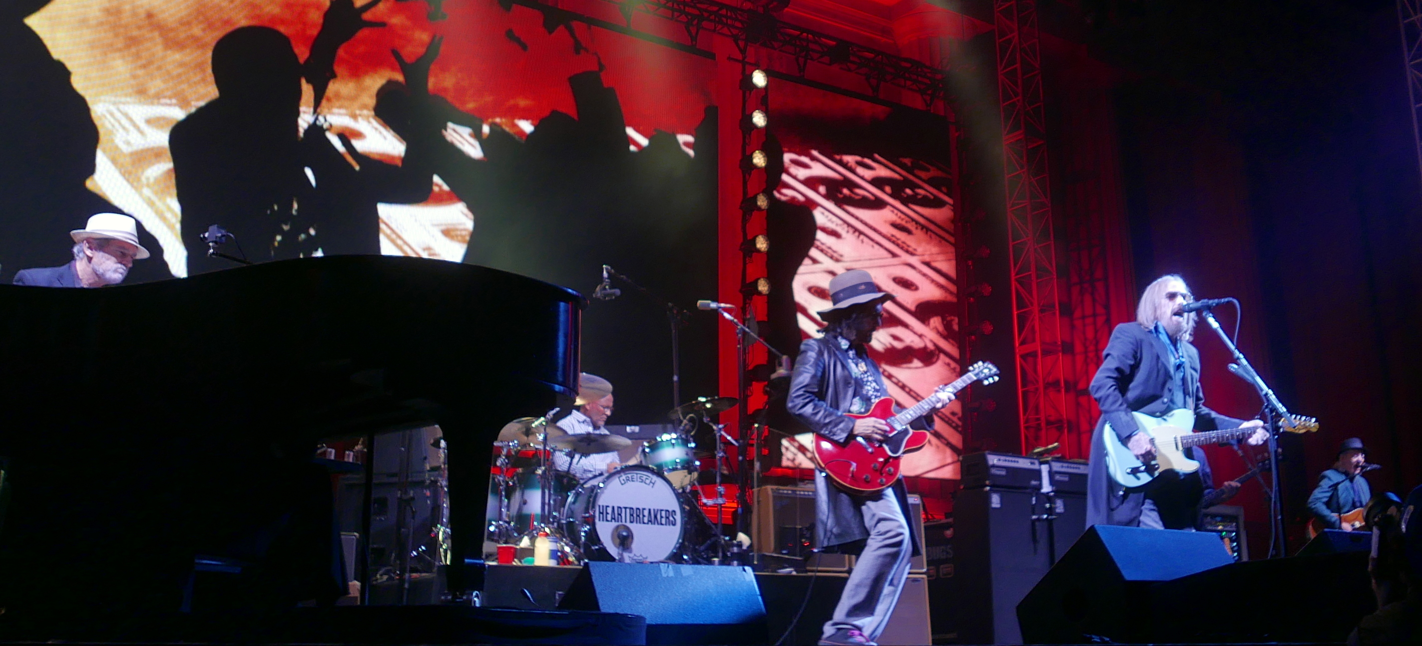 Tom Petty and the Heartbreakers, performing in Berkeley, CA, on August 22nd, 2017.